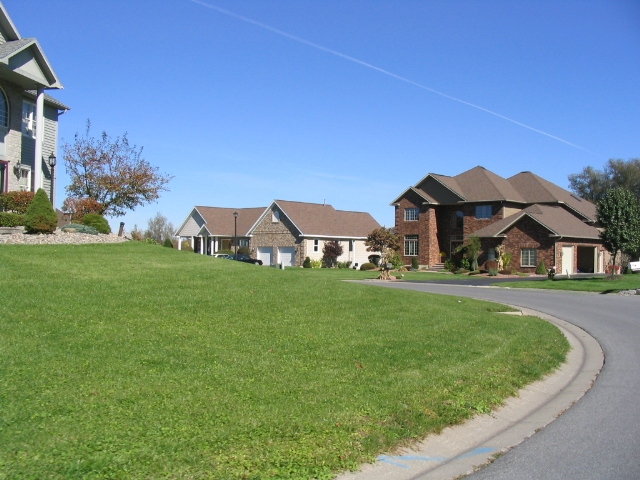 photo of Wild Creek housing development in Clay, taken by me on October 8, 2006